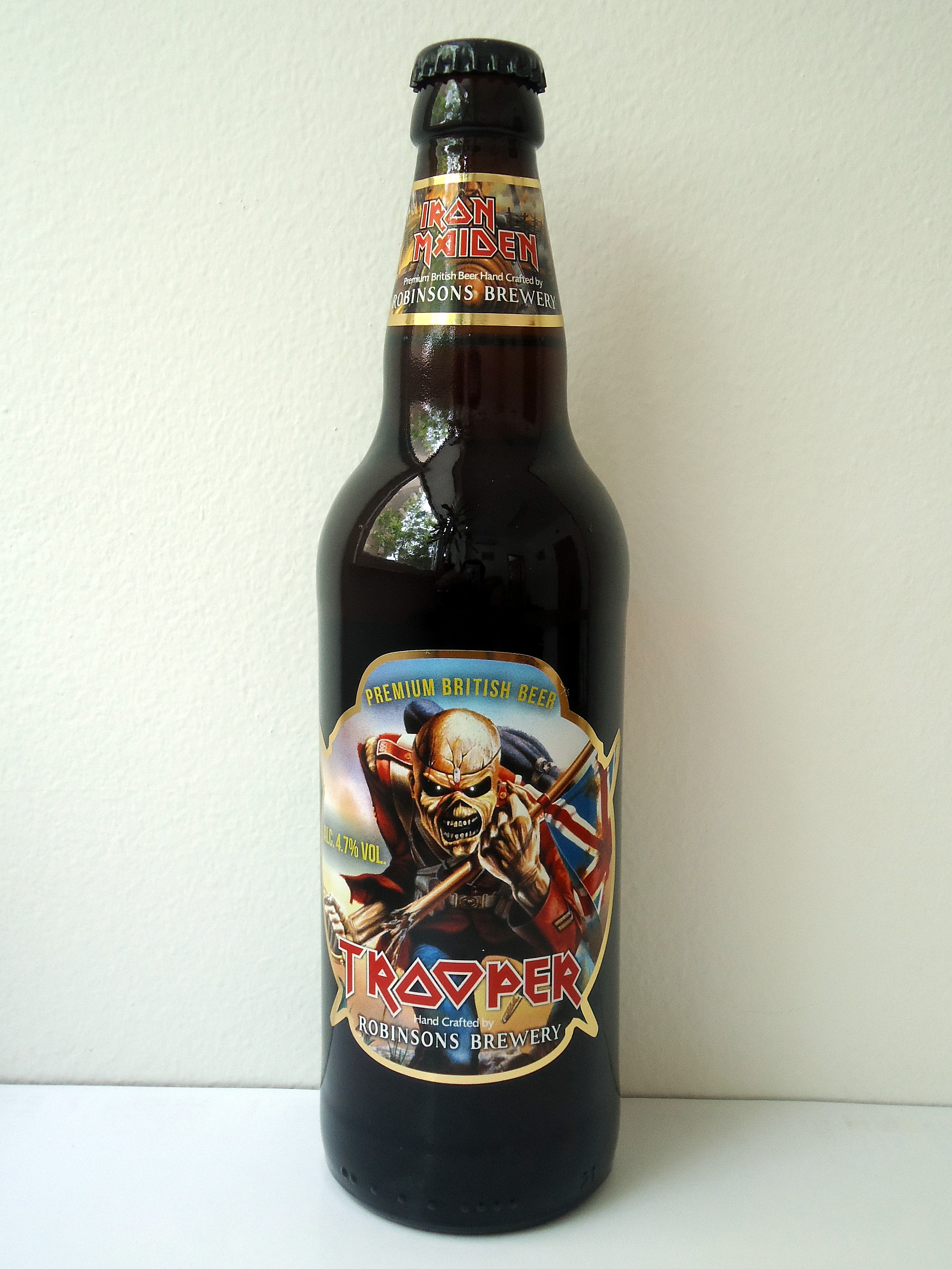 Trooper beer